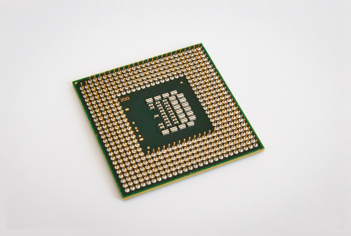 Intel Core 2 Duo T9600 Dual-Core Mobile Prozessor (2.8GHz, 6 MB Cache, Socket P, 1066MHz FSB)